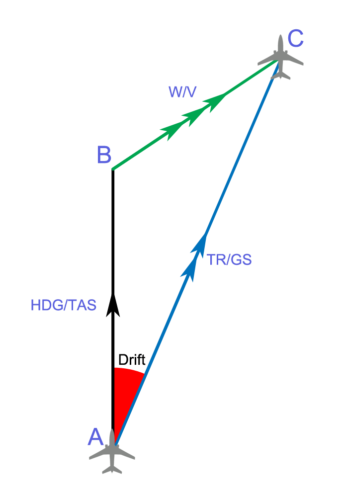 Heading/True airspeed, Wind/Velocity and Track (course)/Ground speed vectors